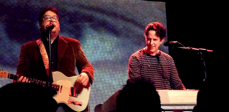 John Linnell and John Flansburgh performing songs from Lincoln and Flood live